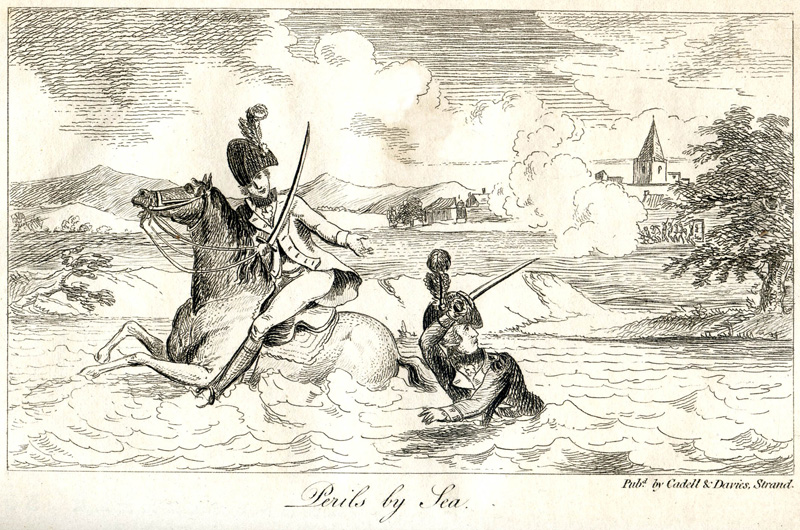 "Perils by Sea" - The Duke of York's narrow escape across a brook at the Battle of Tourcoing, 22nd May 1794